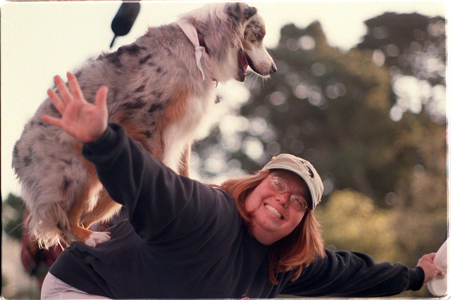 Dog owner and dog at Pet Pride Day, 2002. 9th Annual Pet Pride Day 2002 October 27, 2002 Sharon Meadow, Golden Gate Park Festive event featured a Halloween costume contest, demonstrations by service animals, recognition of animal talent . Pet Pride Parade Search and Rescue Dog Demo Halloween Costume Contest Reunion Rescue Frisbee Pit Bulls Animal Planet Pet Trick Auditions Benefit for Friends of San Francisco Animal Care and ControlPhoto byNancy Wong, San Francisco